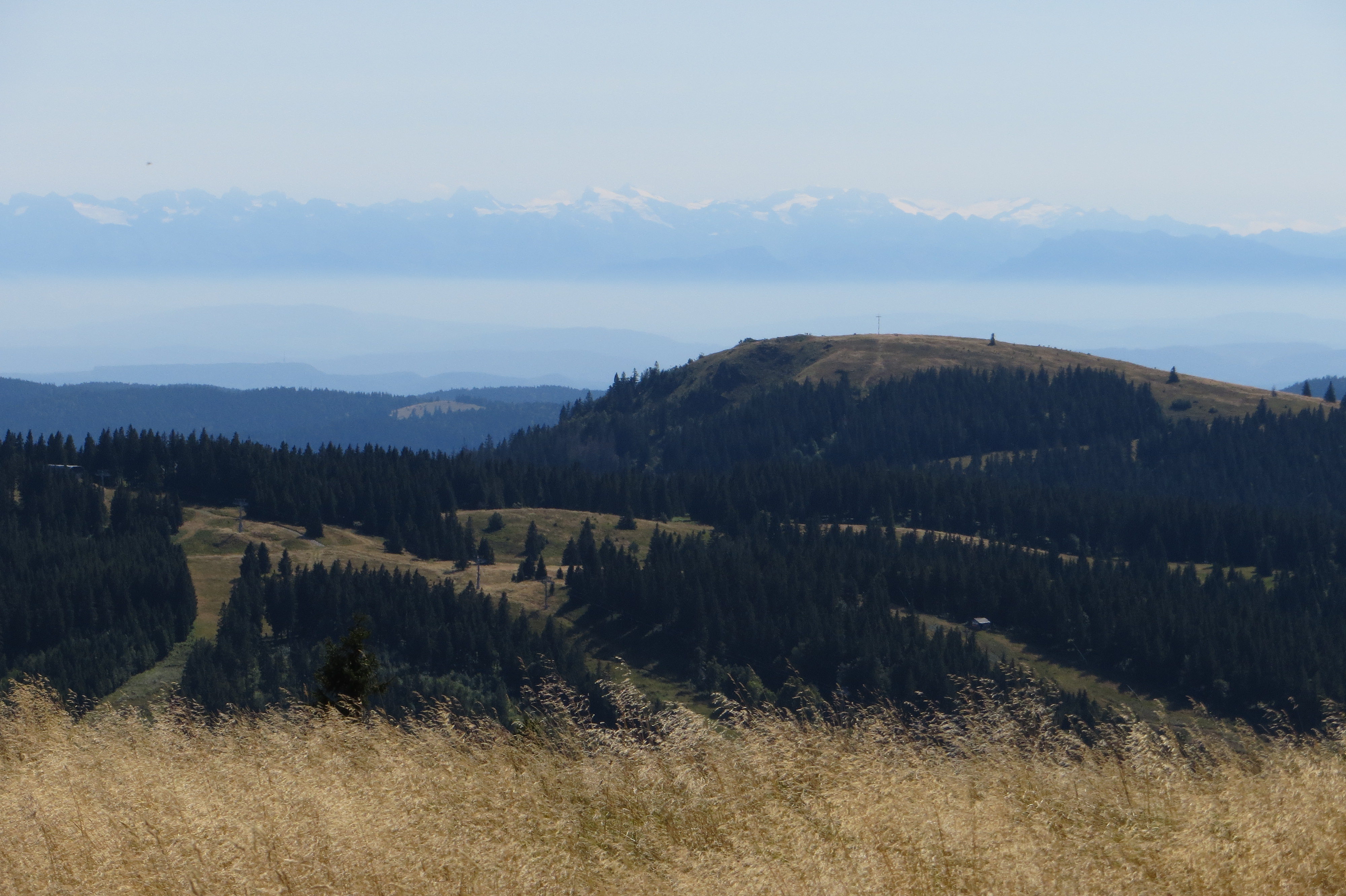 The Herzogenhorn mountain seen from the Feldberg just south of the summit, Baden-Wuerttemberg, Germany